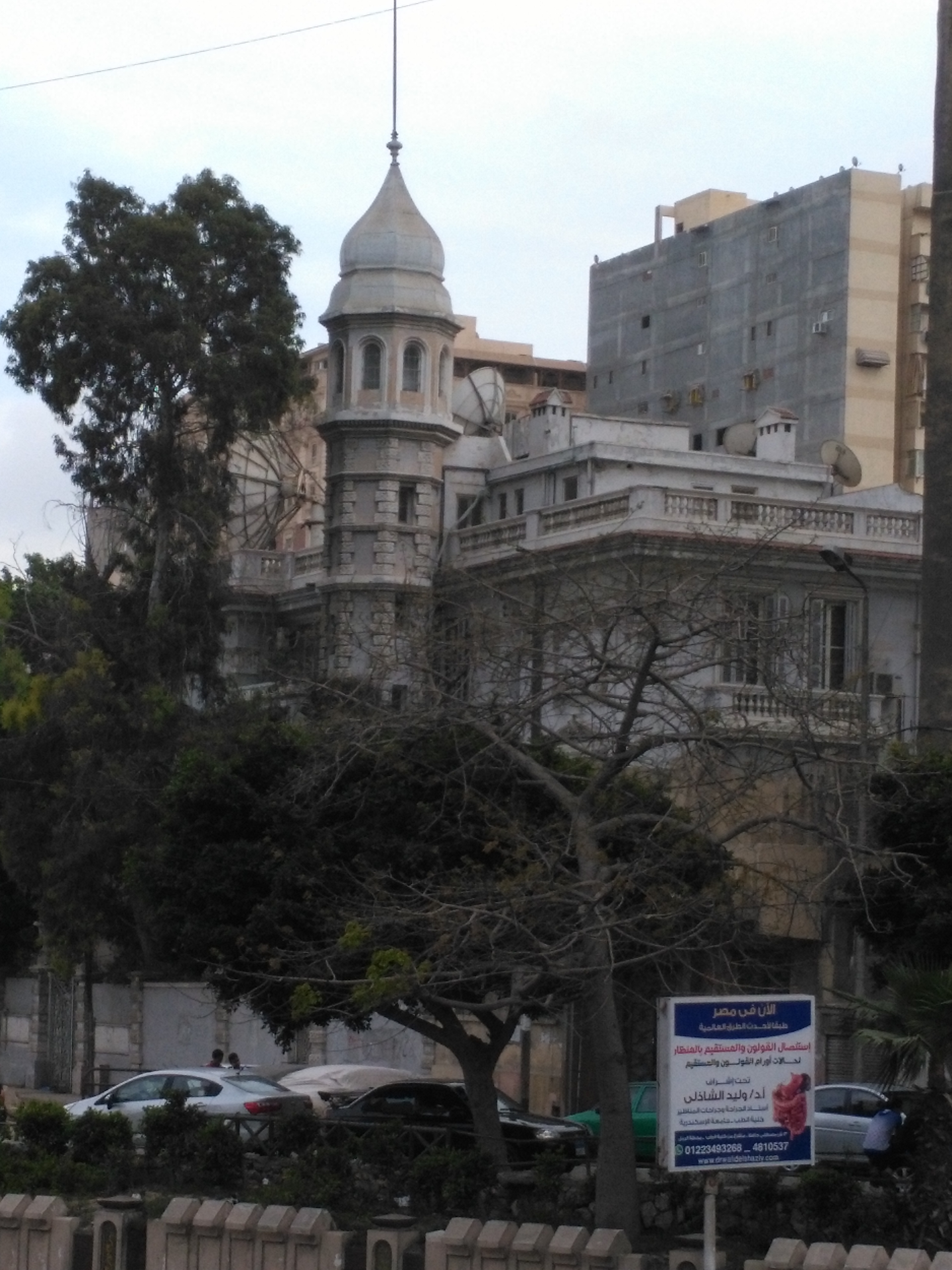 Chinese consulate in Alexandria